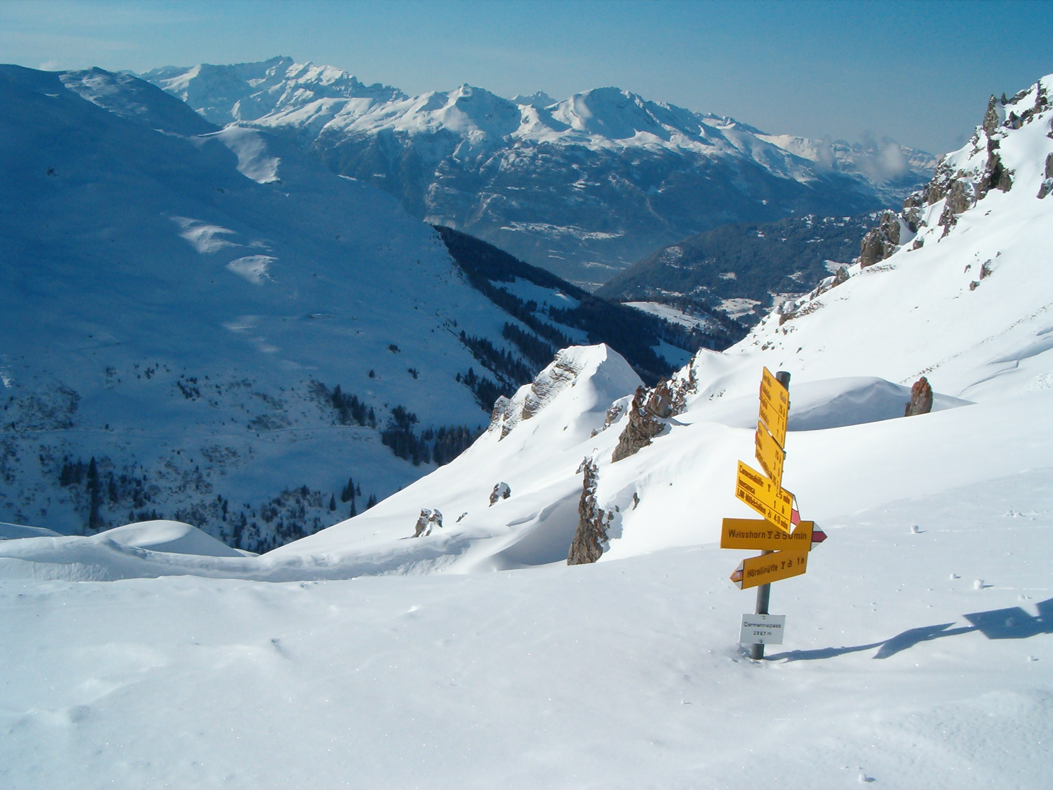 Carmenna-Pass, Arosa, Switzerland